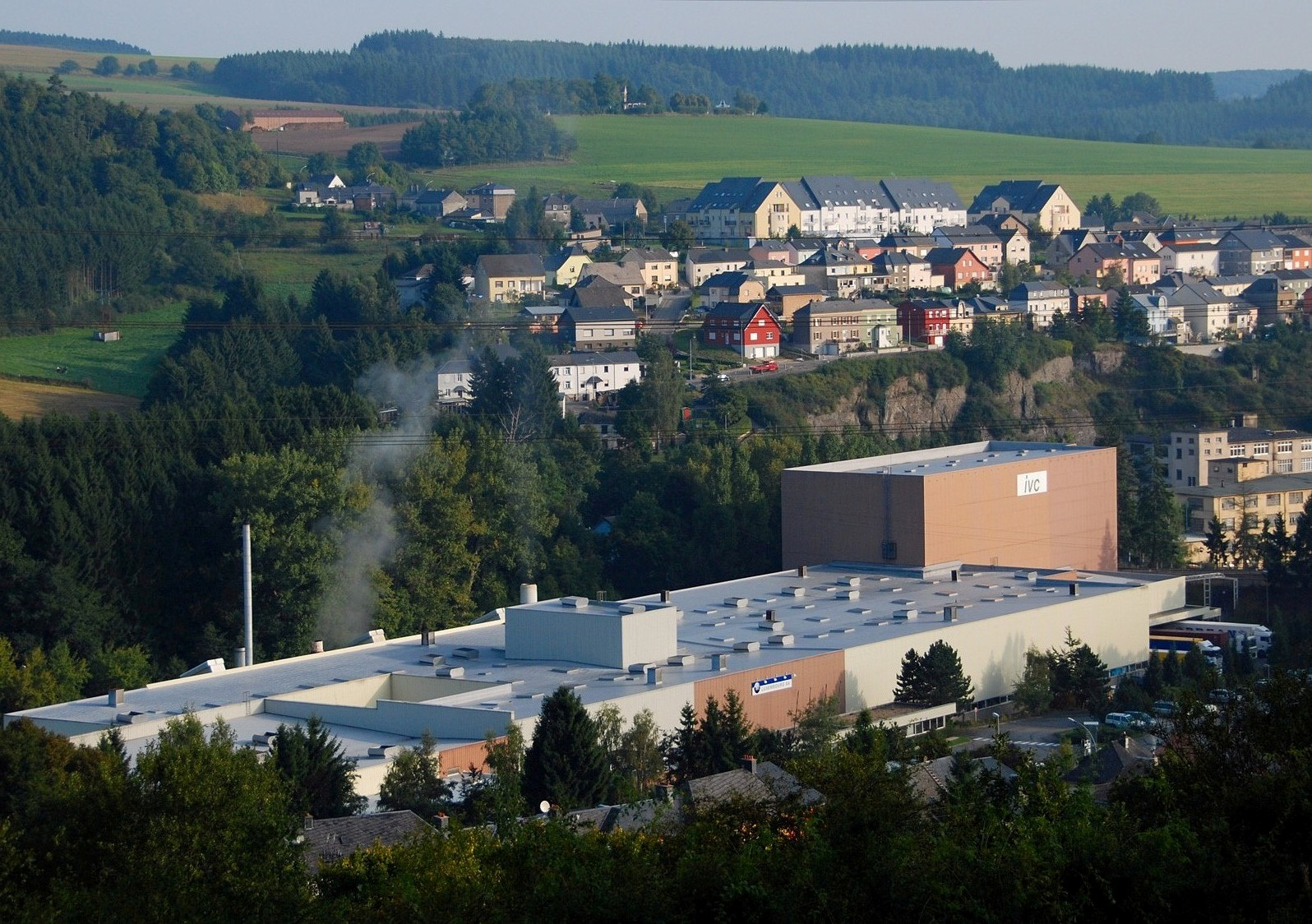 IVC Luxembourg SA, Luxembourg, Wiltz